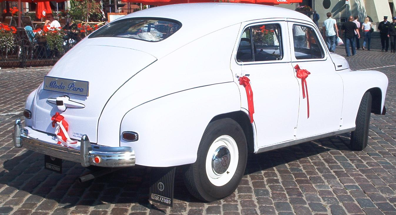 A FSO Warszawa M20 (model 1951-1957) car, nowadays used only for ceremonial events such as weddings. Taken by ProhibitOnions, Warsaw, 2006.